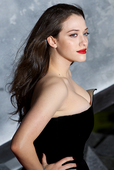 Actress Kat Dennings at the premiere for Thor: The Dark World, October 25, 2013